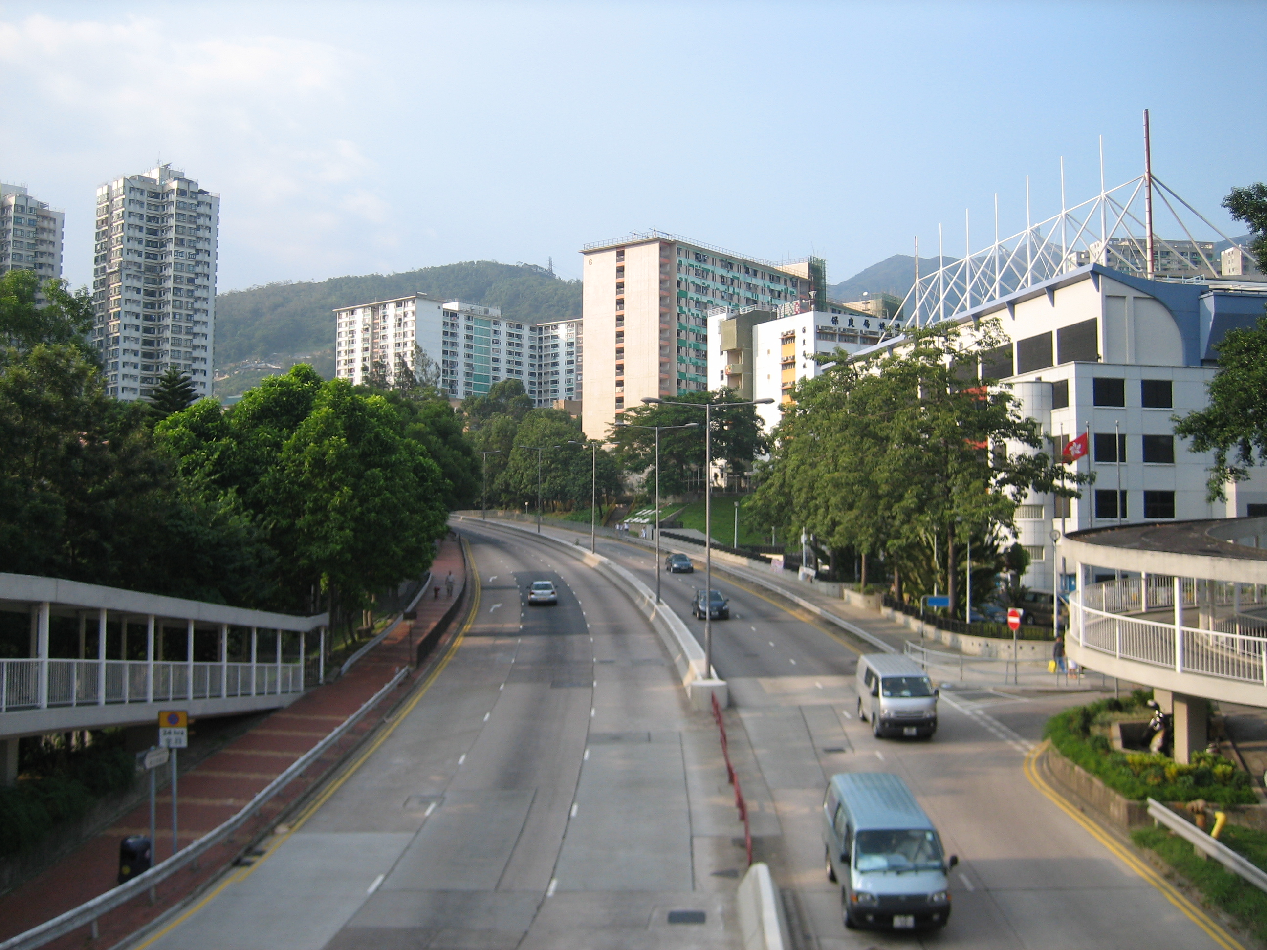 Texaco Road North, Hong Kong